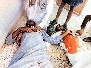 Two demonstrators killed in clashes with state security forces in Eastern Province, during the November 1979 unrest.